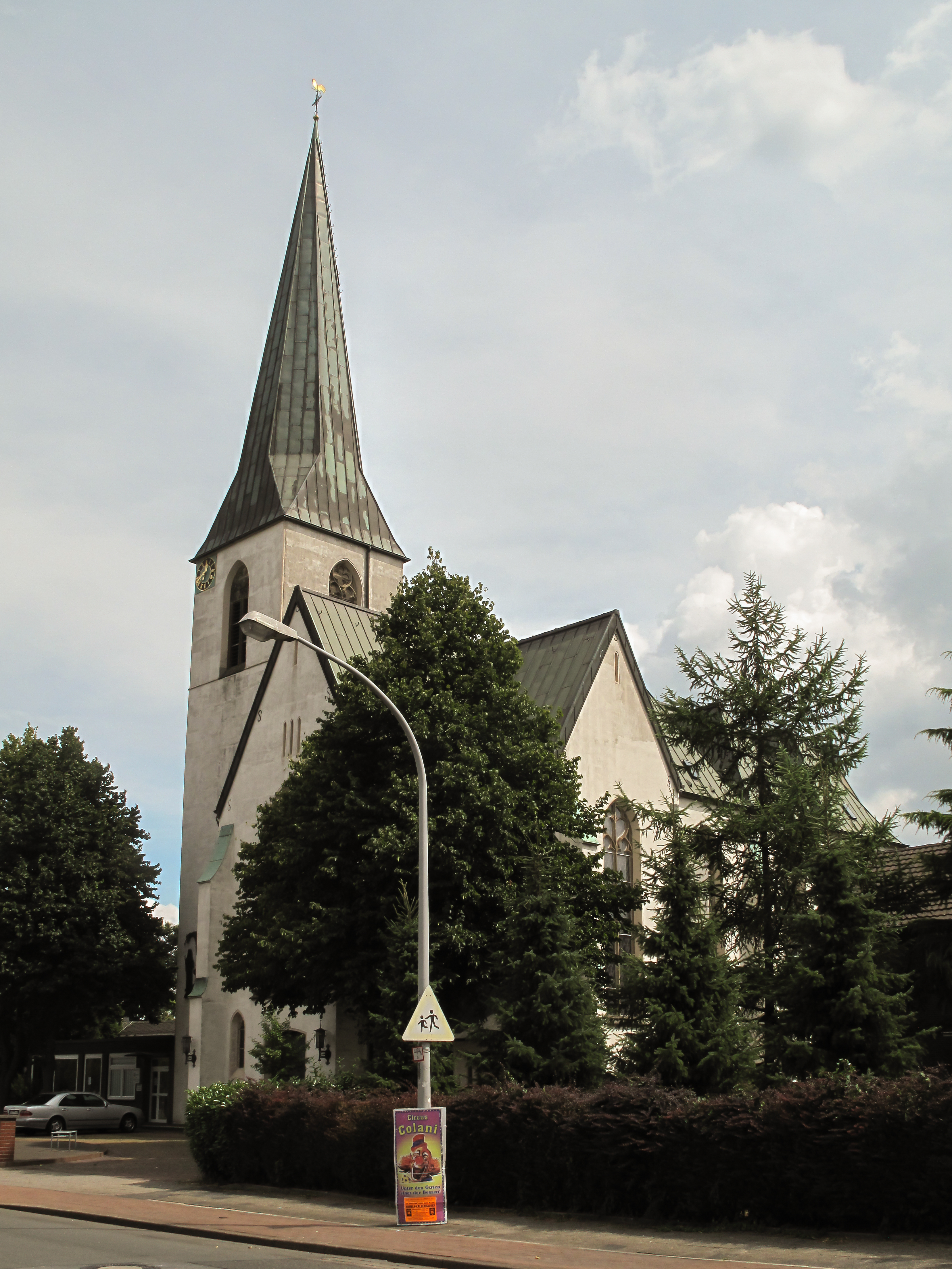 Kaldenhausen, church: Sankt Klara Kirche